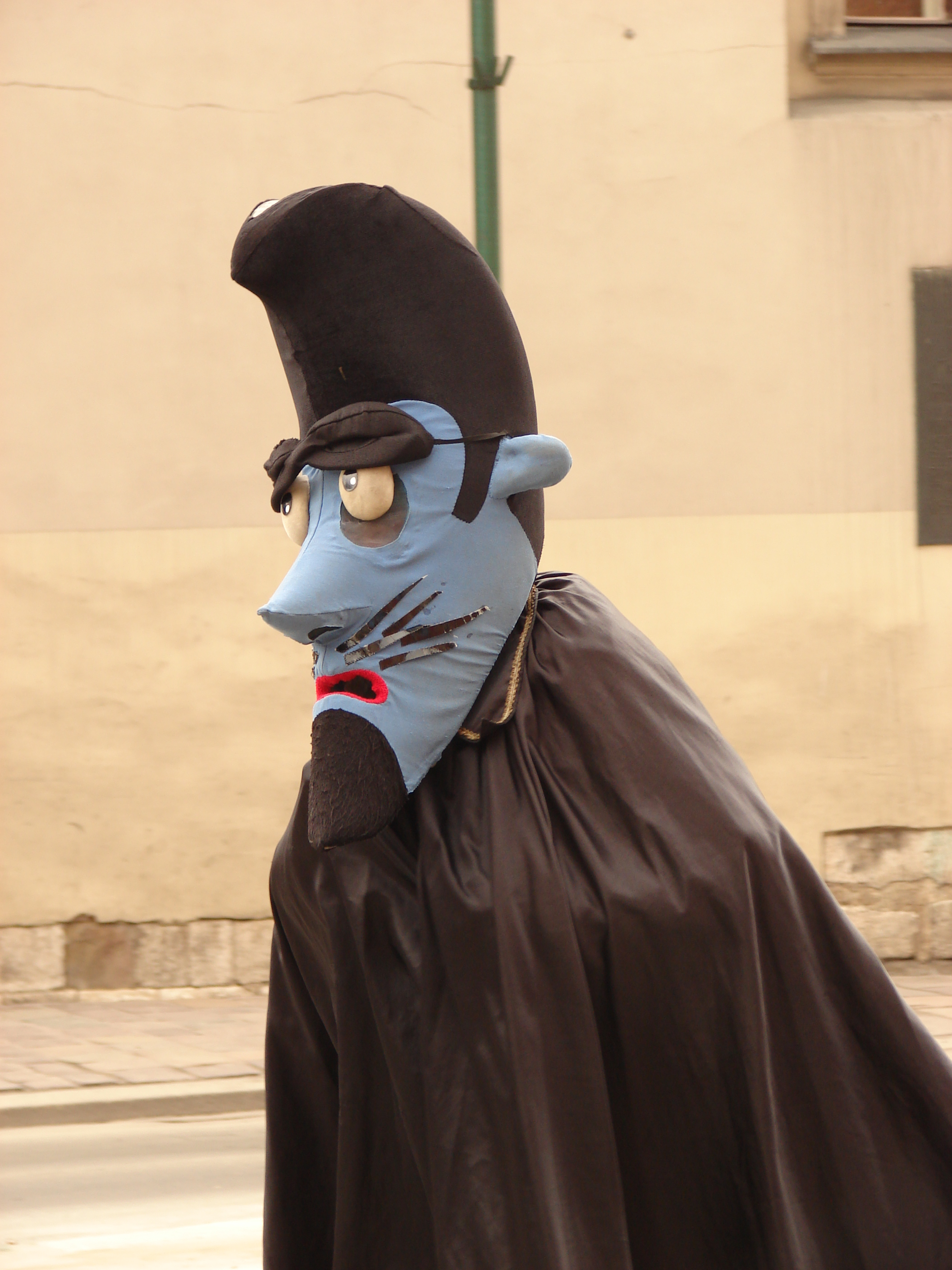 A costume or figure from the animated "Porwanie Baltazara Gąbki" show seen in Krakow